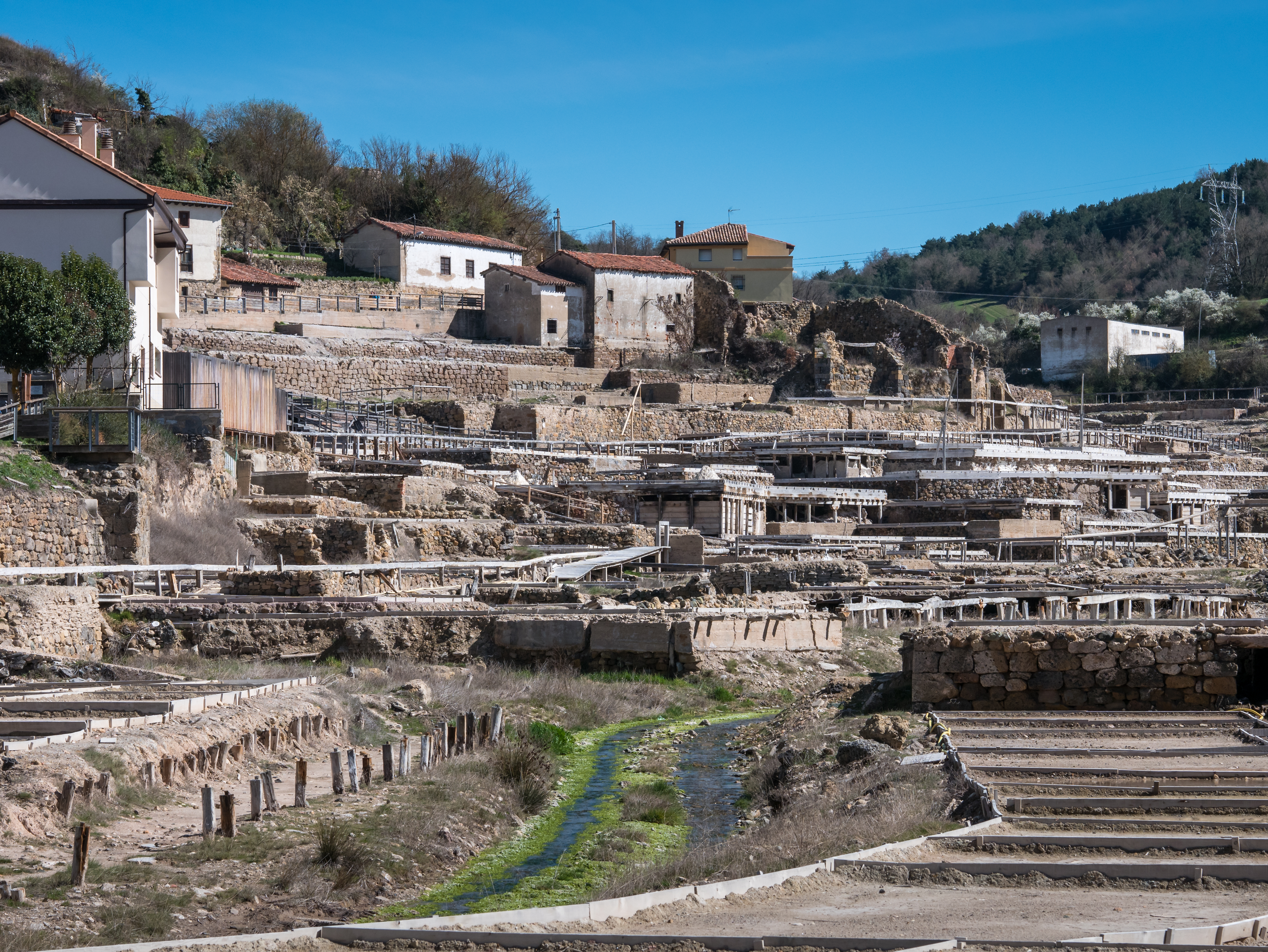 Valle Salado ("Salty Valley") at Salinas de Añana; former and reconstructed salt evaporation ponds; Muera river and halophile vegetation. Álava, Basque Country, Spain